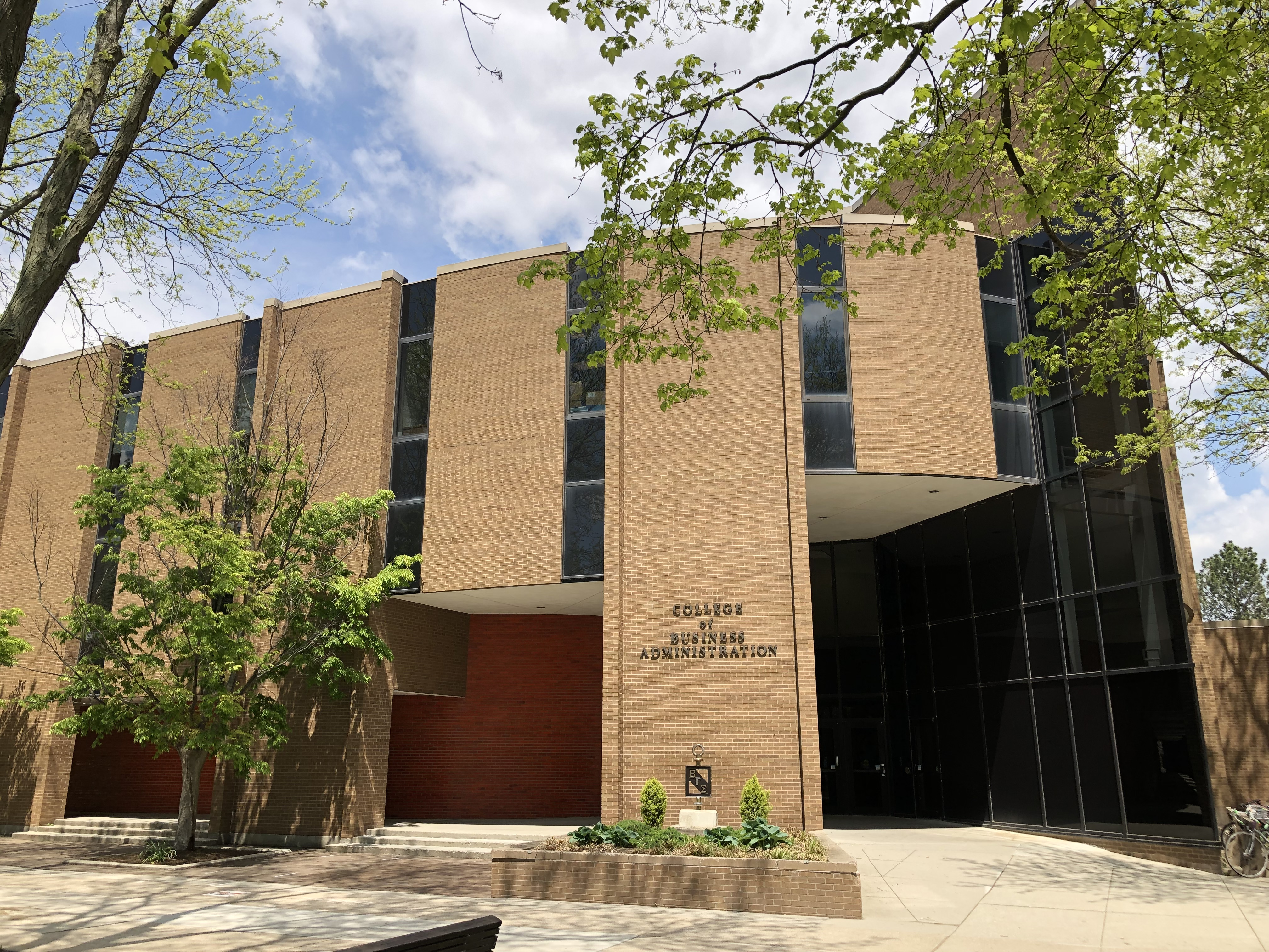 The former Business Admin Building at BGSU. Named Central Hall as of 2020